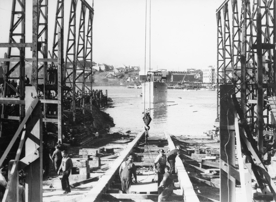 AWM Caption: Mort's Dock. The keel plate for another vessel is laid a few minutes after the launching of HMAS Deloraine.